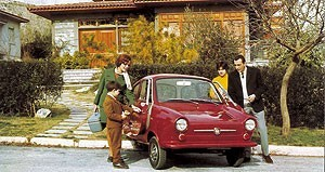 Alta A200 in a very characteristic image of its age